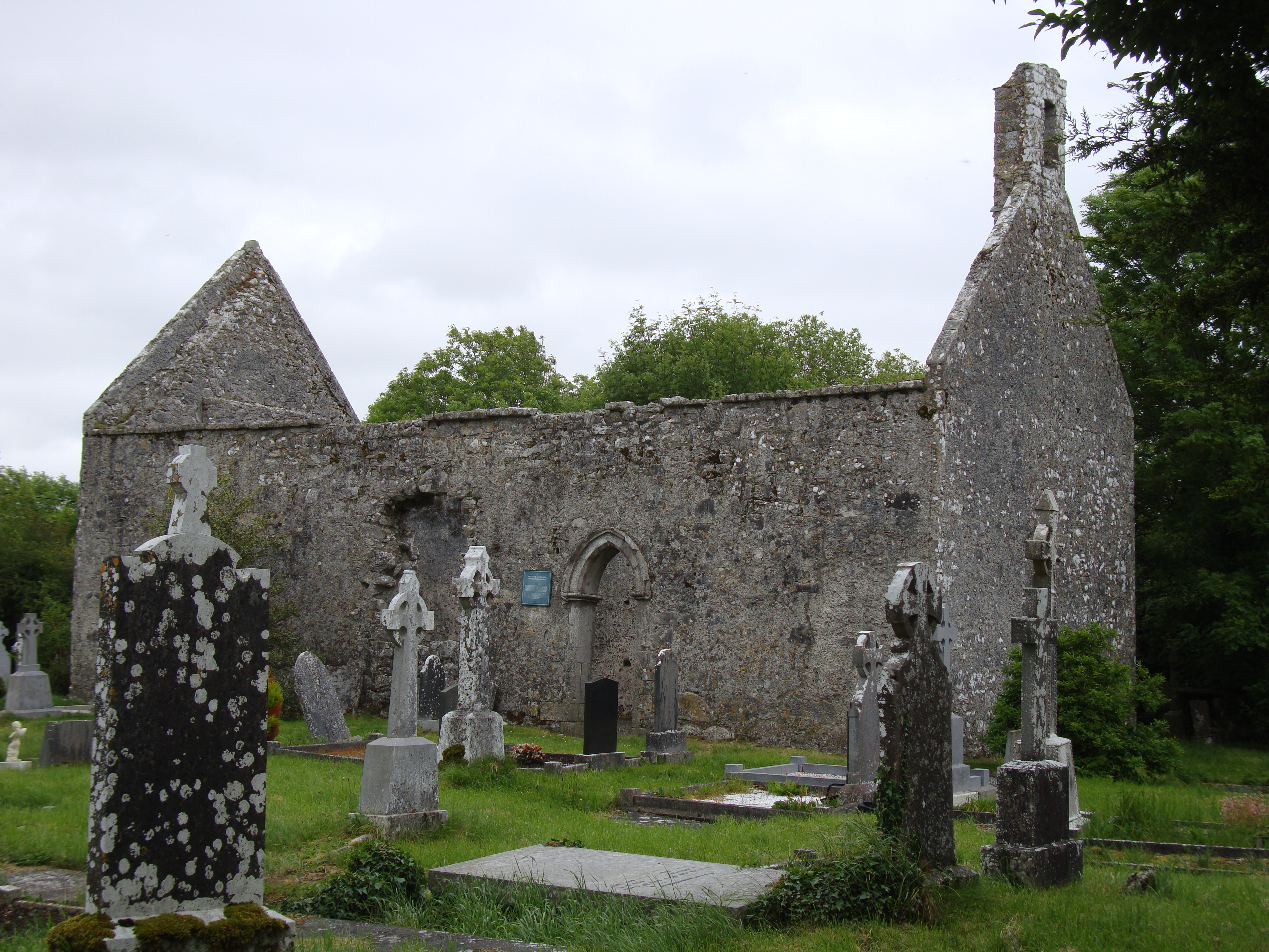 Photograph of the remains of Annaghdown Cathedral, Co. Galway, Ireland